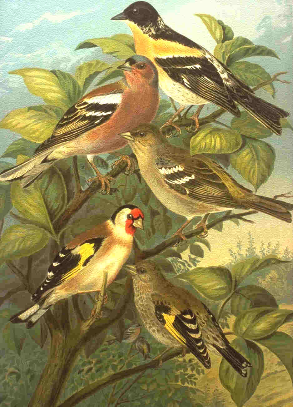 Fringilla montifringilla - one bird at the top; Fringilla coelebs - in the middle - male (left) and female (right); Carduelis carduelis - at the bottom, adult (left) and young (right).